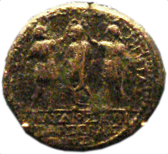 Herold_of_Chalcis_coin_showing_Herod_of_Chalcis_with_brother_Agrippa_of_Judaea_crowning_Roman_Emperor_Claudius_I